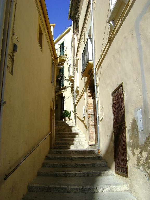 An alley of the historical center of Atessa